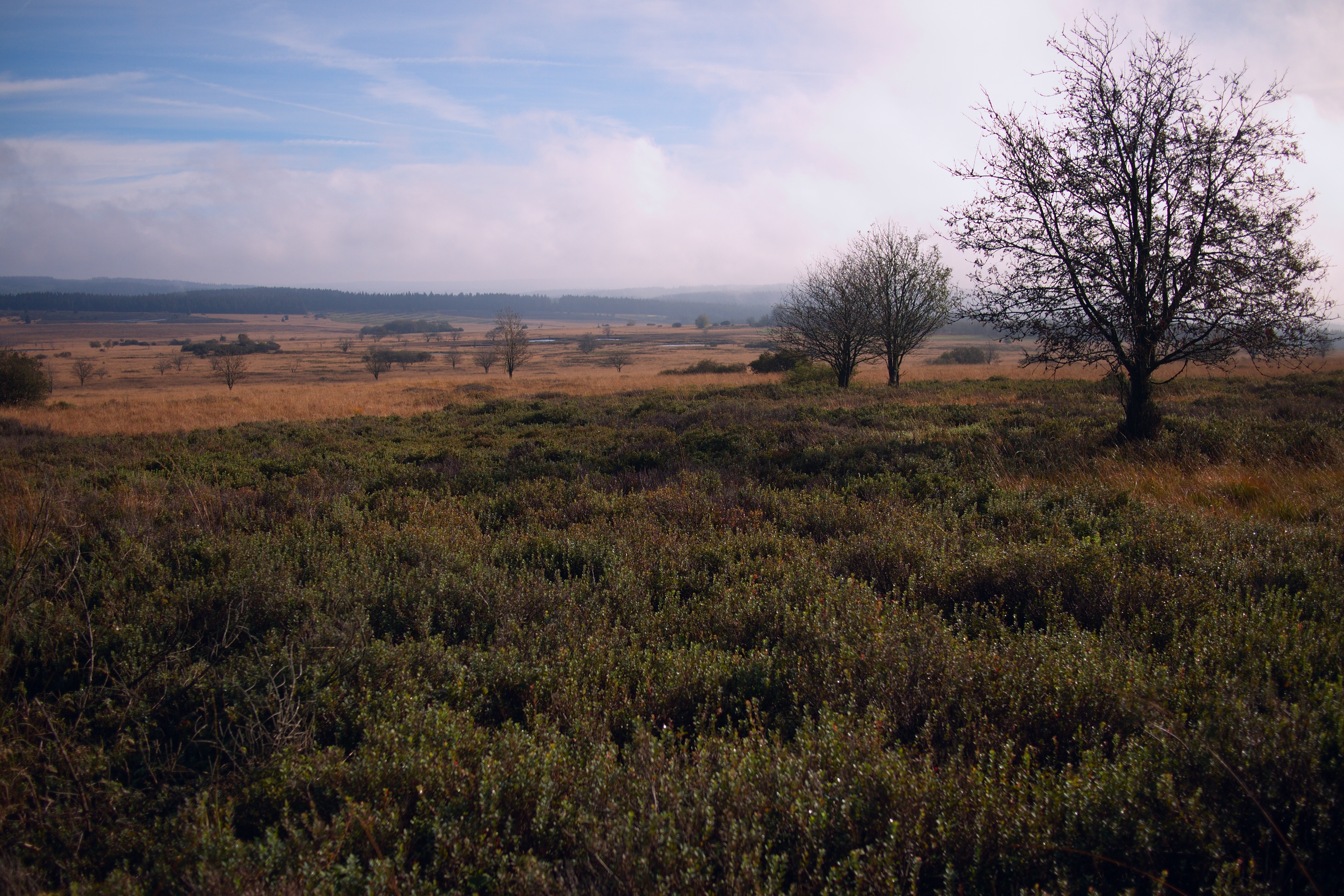 The "Réserve Naturelle Domaniale des Hautes Fagnes", a 46 sqkm-large State Nature Reserve in the Eastern Ardennes, is covered by extensive heatlands and raised bogs. This area is well-known for its glacial relict fauna and flora, and holds a small isolated population of the Black Grouse (Tetrao tetrix). The reserve is currently undergoing extensive restoration efforts in the frame of a EU-cofunded LIFE-Nature project. Panasonic DMC-GF1 + Lumix G 20mm F1.7 ASPH